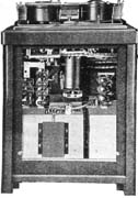 European Wire Recorders in the 1920s Textophon The Telegraphone was not a commercial success, but it did demonstrate that a wire recorder could be used successfully for certain applications such as office dictation and telephone recording (for a history of the answering machine, click here). Several European companies in the 1920s attempted to market improved wire recorders for dictating and telephone recording purposes. These were the first magnetic recorders to use the new technology of electronics. Using the vacuum-tube electronic amplifiers that became available after World War I, these recorders could capture weak telephone signals and reproduce them with greater volume than was possible with the Telegraphone. Examples of these European machines included the "Textophone" and the "Dailygraph."